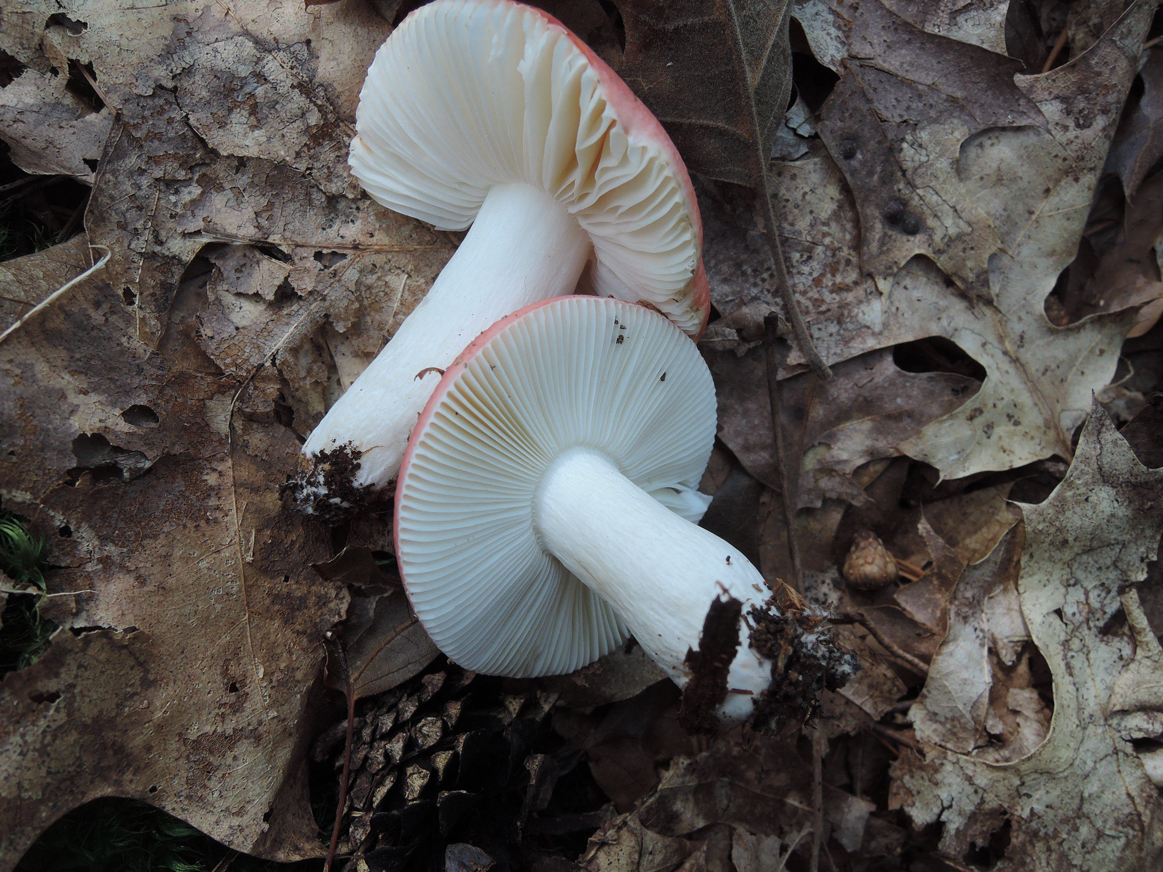 Russula silvestris (Singer) Reumaux Image location: Turkey Point, Ontario, Canada very hot under oak, white and red pine Recognized by sight For more information about this, see the observation page at Mushroom Observer.